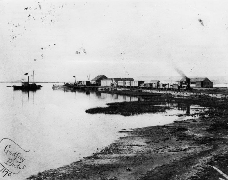 Banning's Landing in Wilmington, 1870. View of Wilmington harbor, showing the Los Angeles and San Pedro Railroad, which had been completed by Phineas Banning in 1869--the first railroad to the harbor. Before that, freight was transported to Los Angeles by ox carts (carretas) and later by horse-drawn wagons.